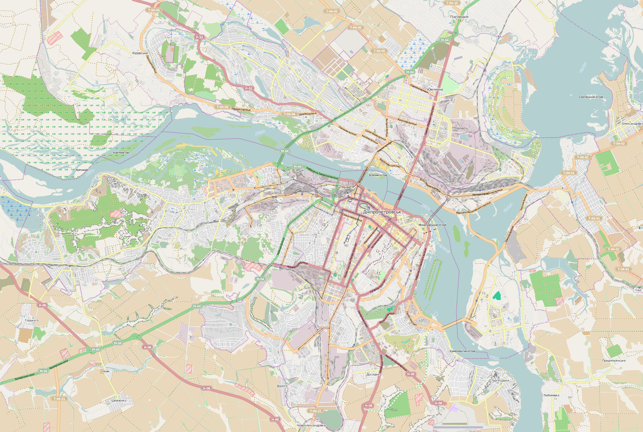 This map may be incomplete, and may contain errors. Don't rely solely on it for navigation.